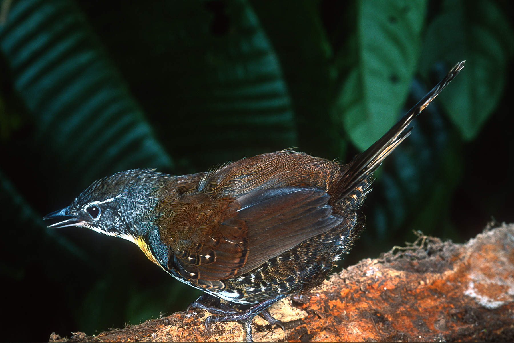 Ecuador lowlands, image taken on film in 2003